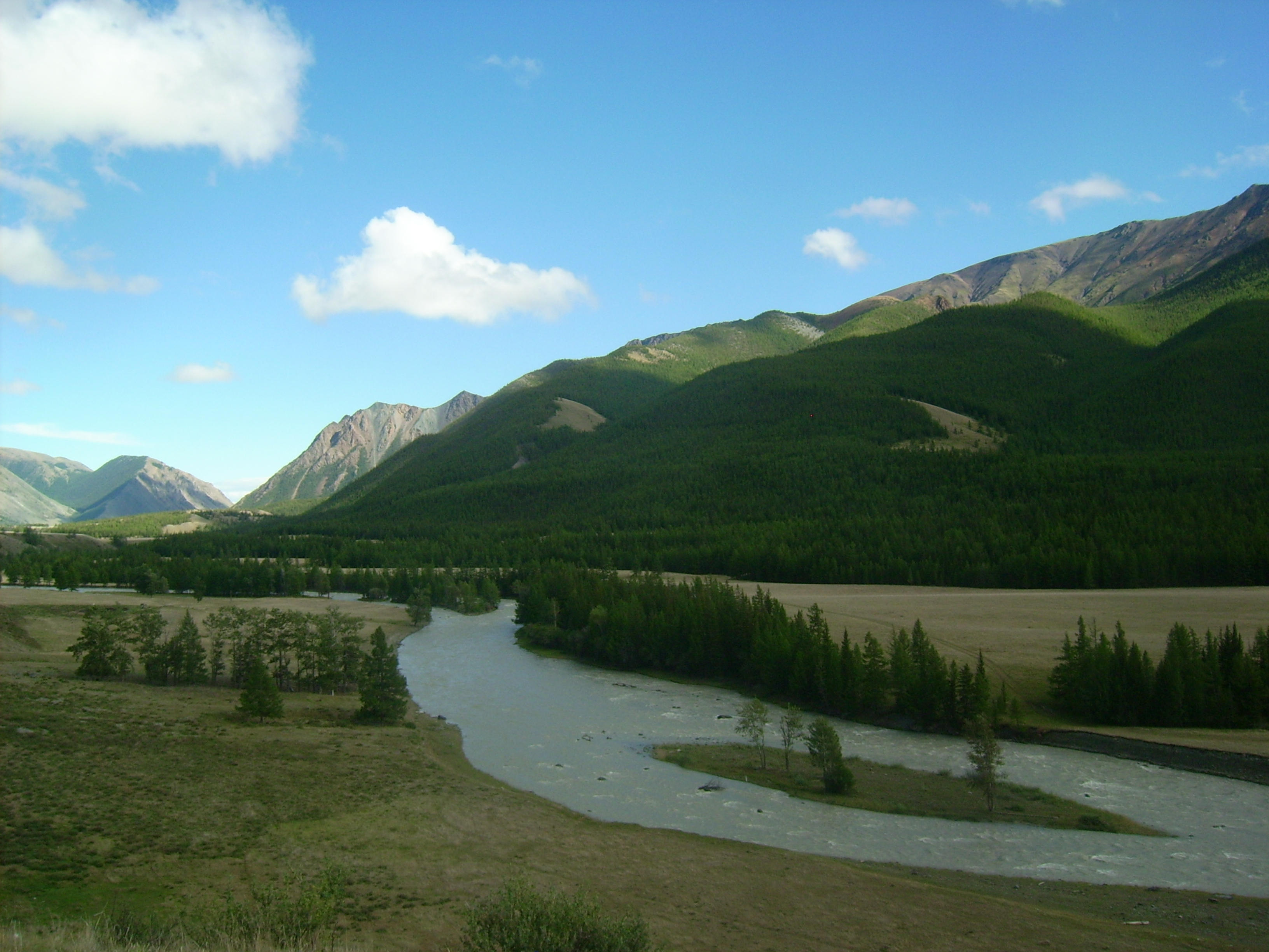 Chuya River Altay mountains